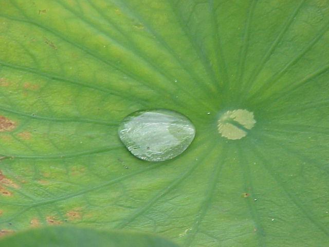 Species: Nelumbo lutea Family: Nymphaeaceae Image No. 1